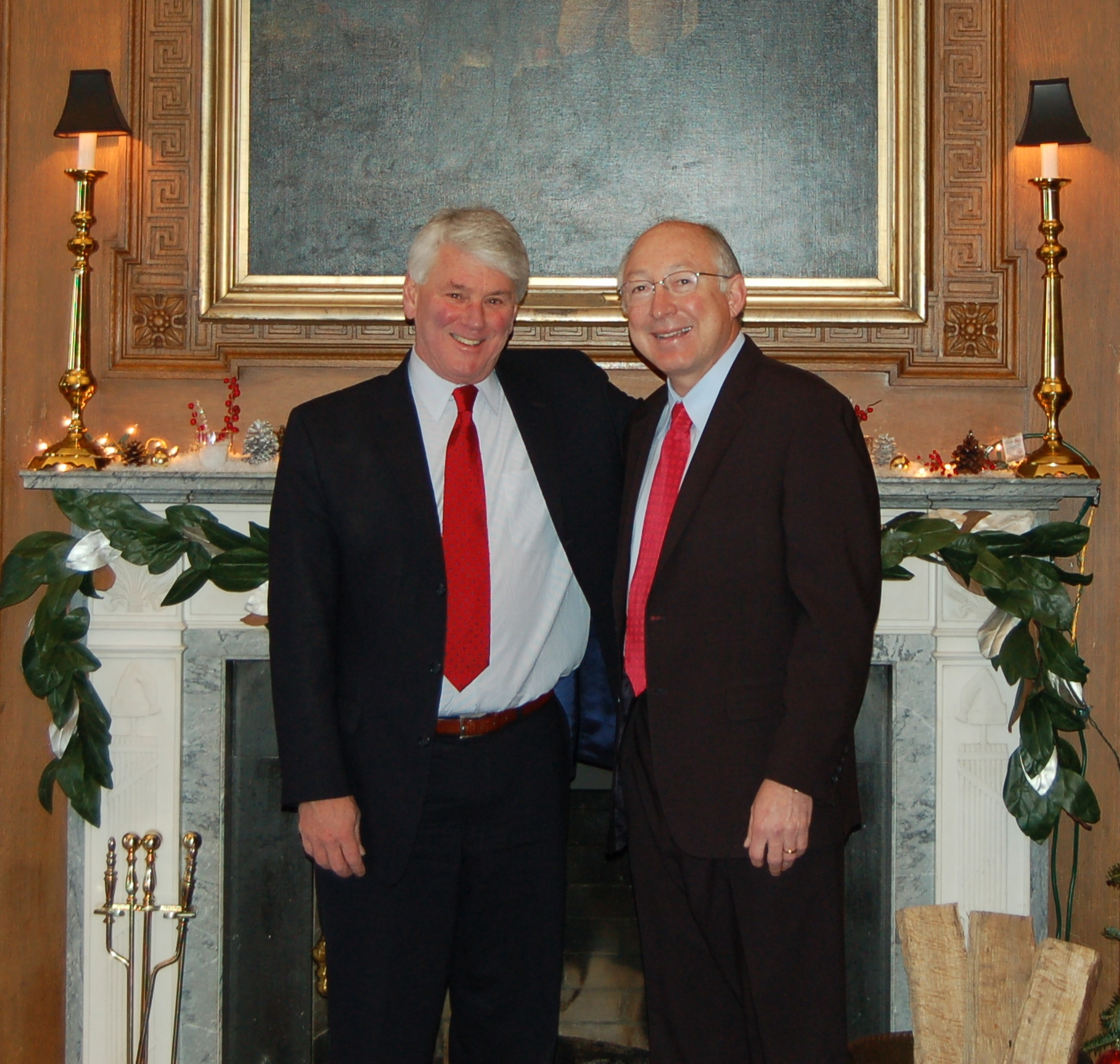 Secretary Ken Salazar with [White House Counsel] Greg Craig, [at Interior headquarters, Washington, D.C.] - 12/21/2009